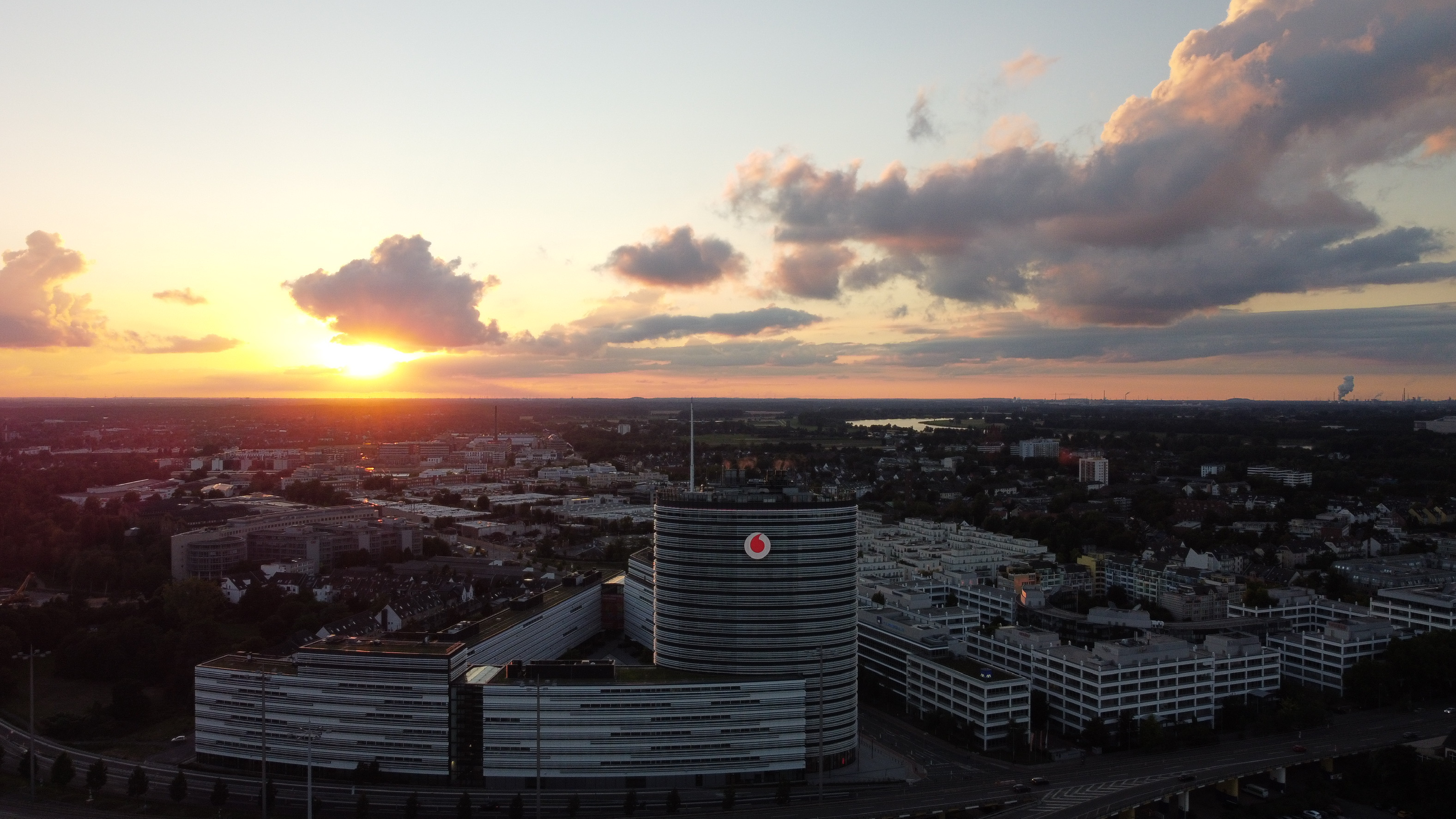 A drone panorama of the Vodafone Campus in Düsseldorf Heerdt shot at sunset